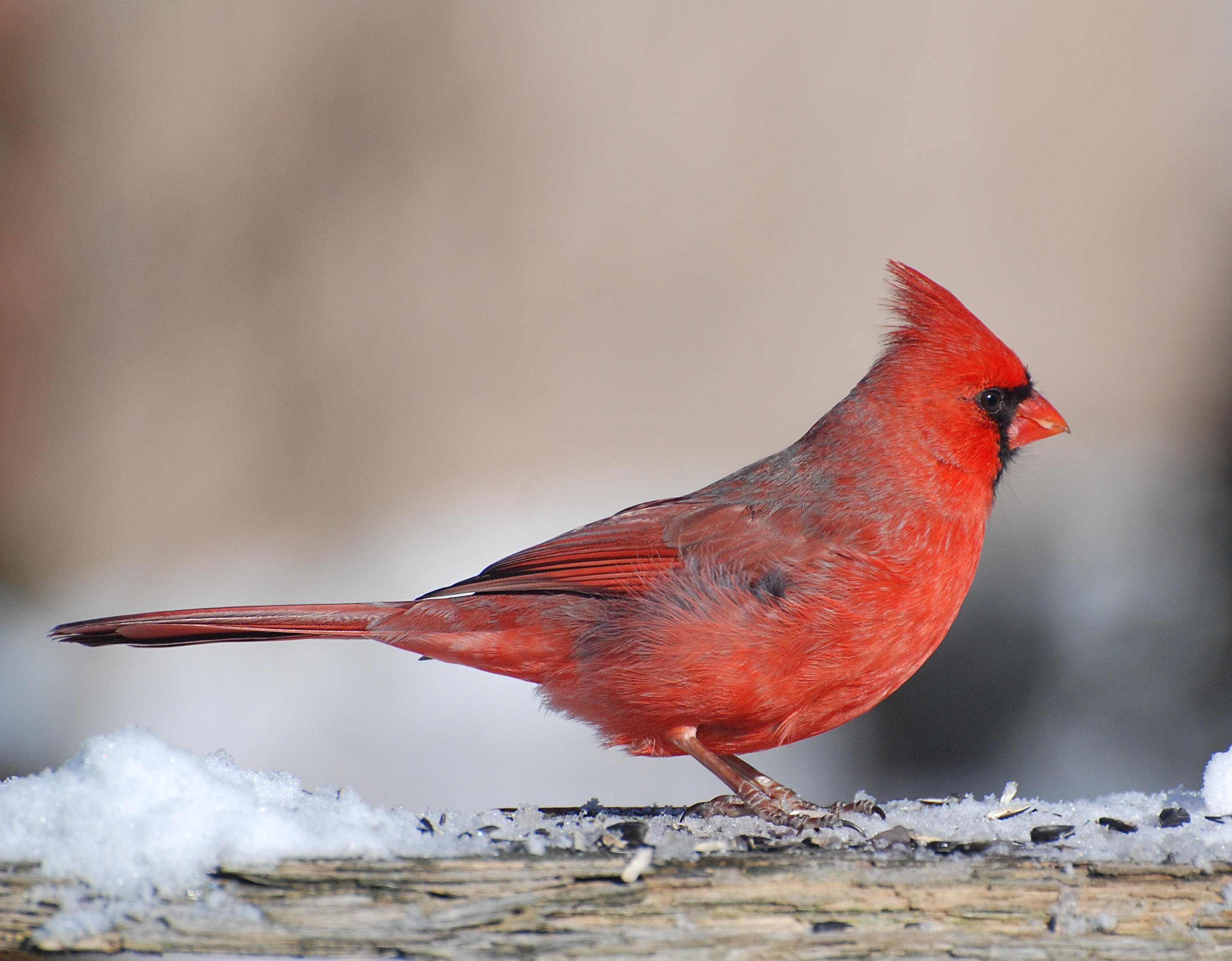 Male Cardinal